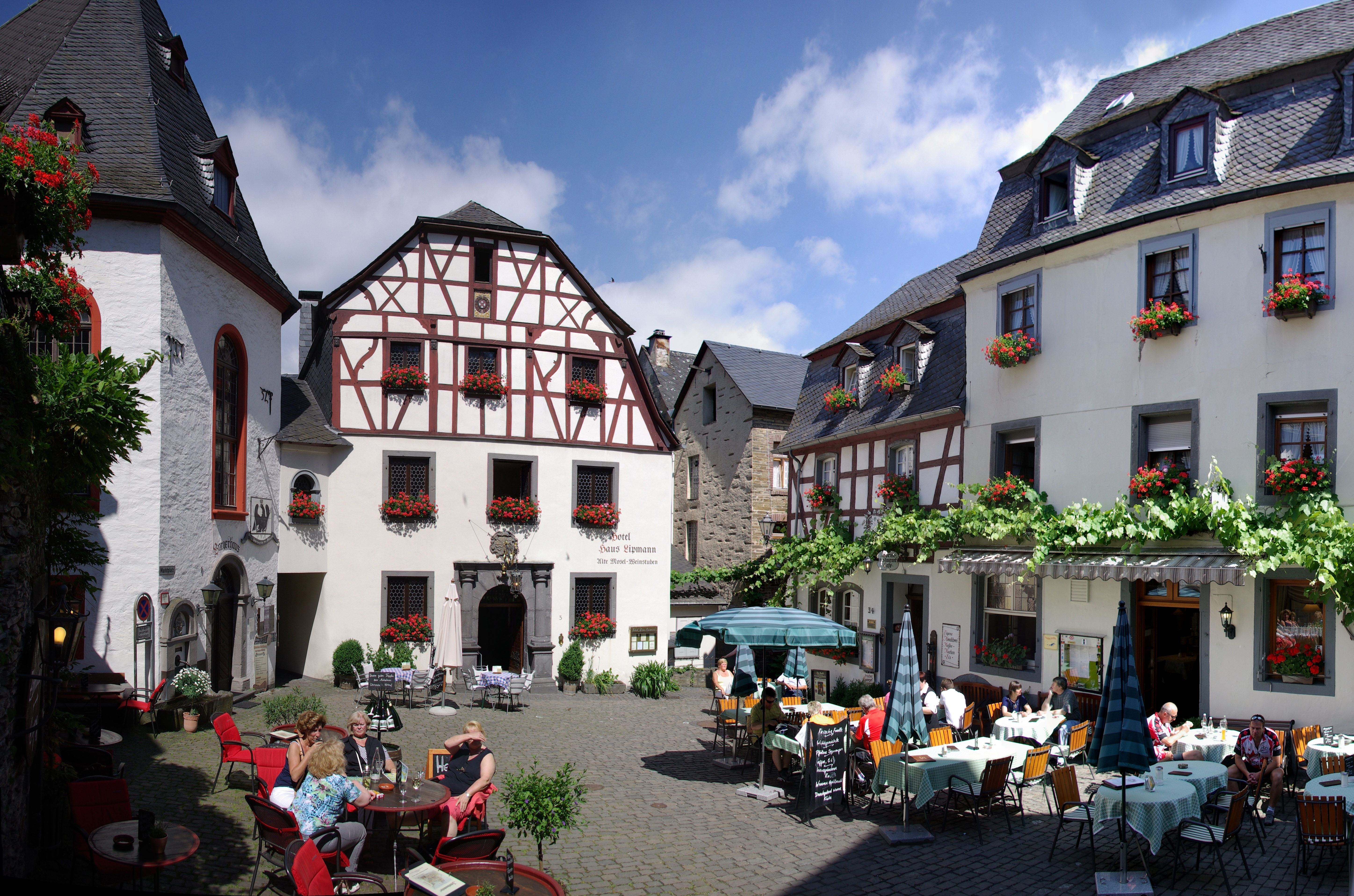 Germany, Beilstein at the river Mosel, Marketplace, stiched from 4 photographs using MS ICE